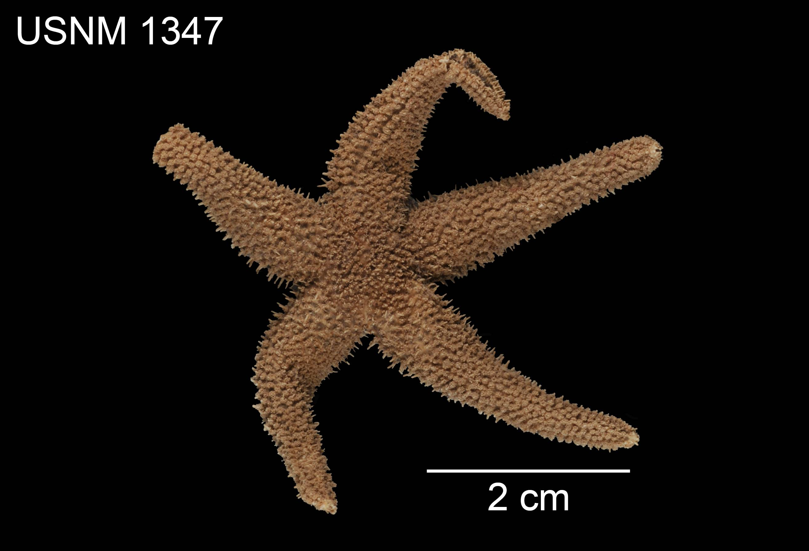 PRESERVED_SPECIMEN; Preparations: Dry; Asterias compta Stimpson, 1862; Individual count: 2; Type status: SYNTYPE; Identified by: Stimpson, William; Event date: (no data); Additional description: dorsal